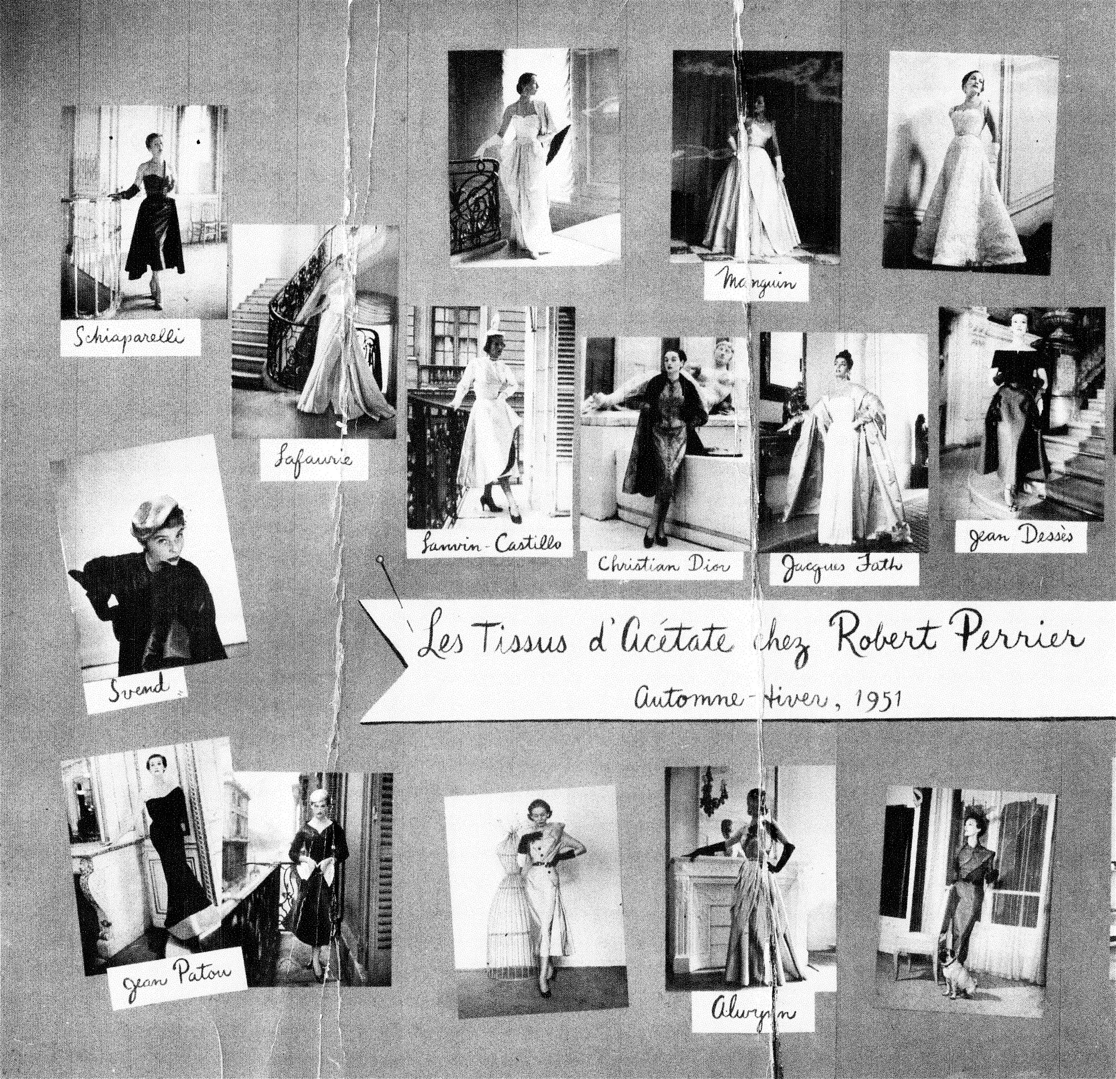 Acetate fabrics by Robert Perrier 1951 Autumn-Winter For Elsa Schiaparelli, Lucile Manguin, Jeanne Lafaurie, Jeanne Lanvin, Christian Dior, Jacques Fath, Jean Dessès, Svend, Jean Patou, Alwynn